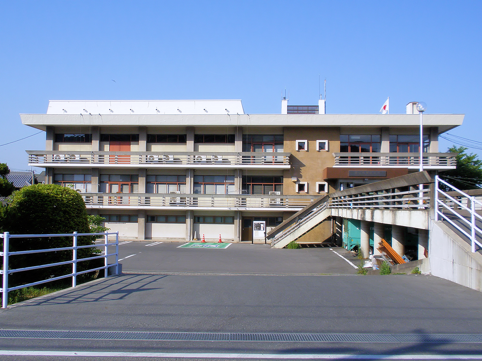 Okayama city Minami ward office Nadasaki branch Former Nadasaki town office (1987 - 2005.3.21) Former Okayama city office Nadasaki branch (2005.3.22 - 2009.3.31) Former Okayama city Minami ward office (2009.4.1 - 2013.12.23)